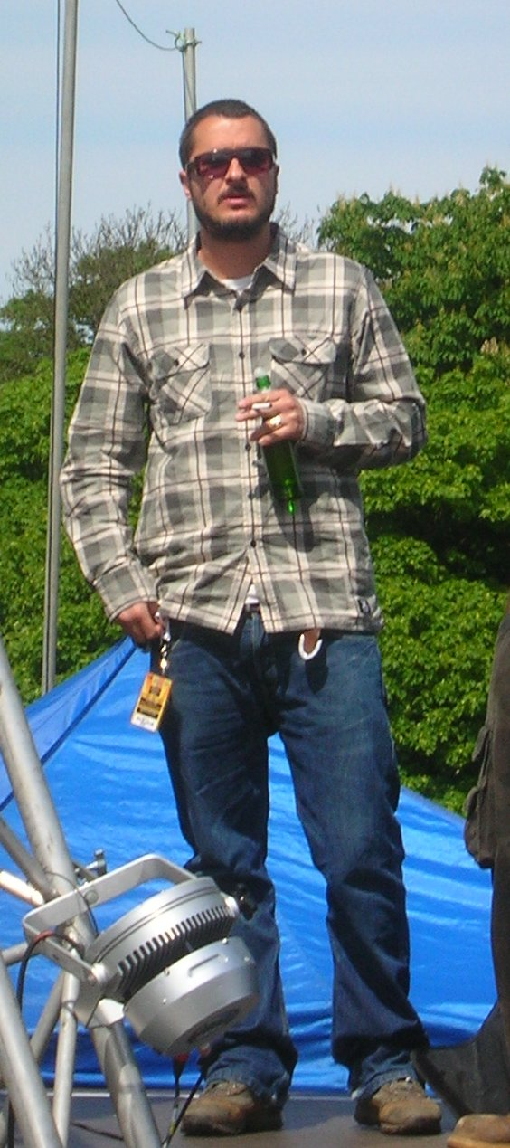 Zane Lowe just before taking the decks at Preston